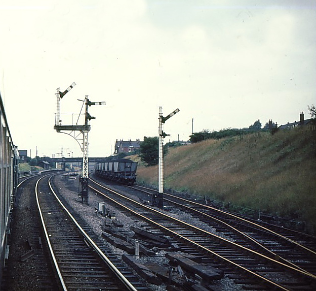 Treeton Jct